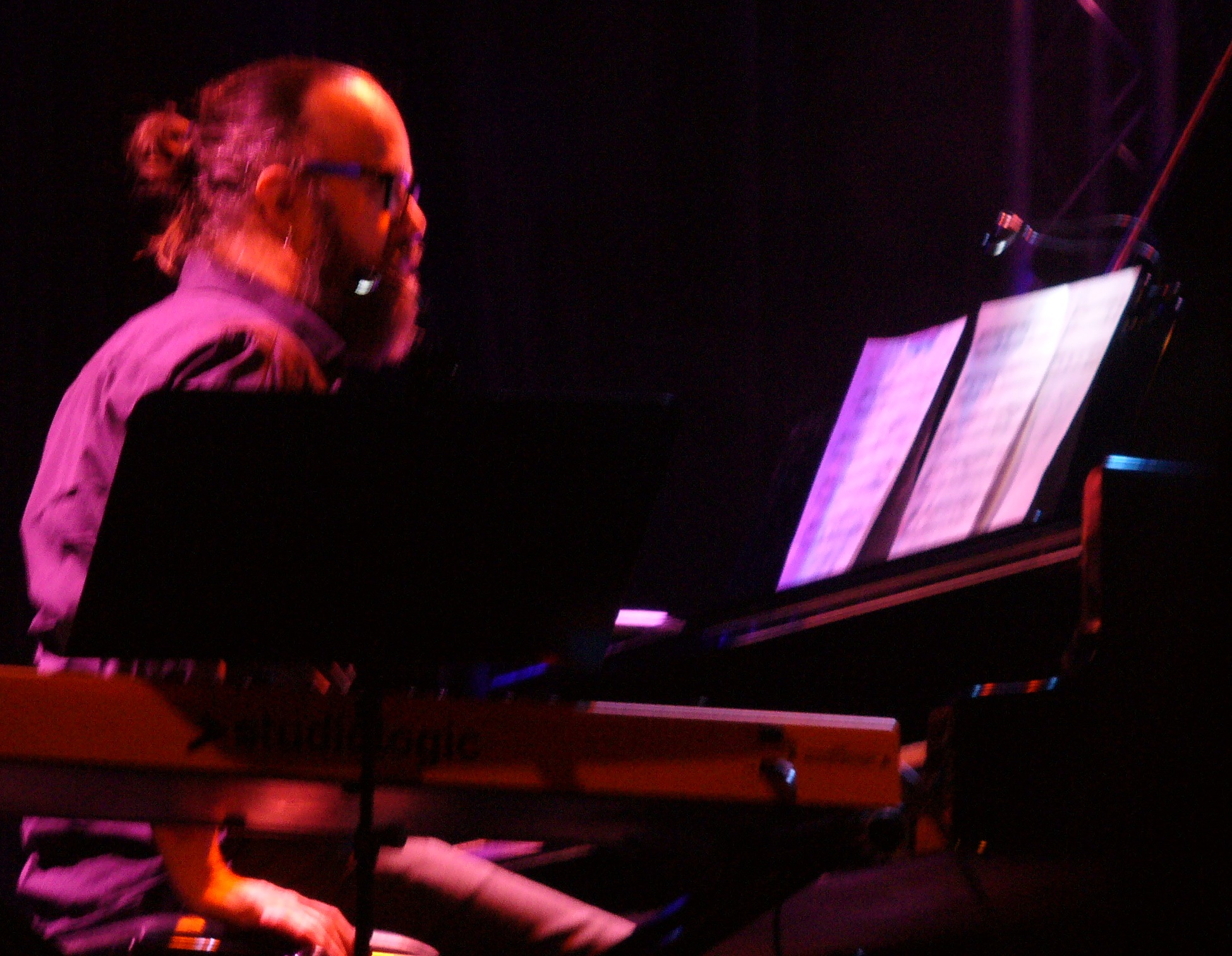 Jørn Øyen at Vossajazz 2014.